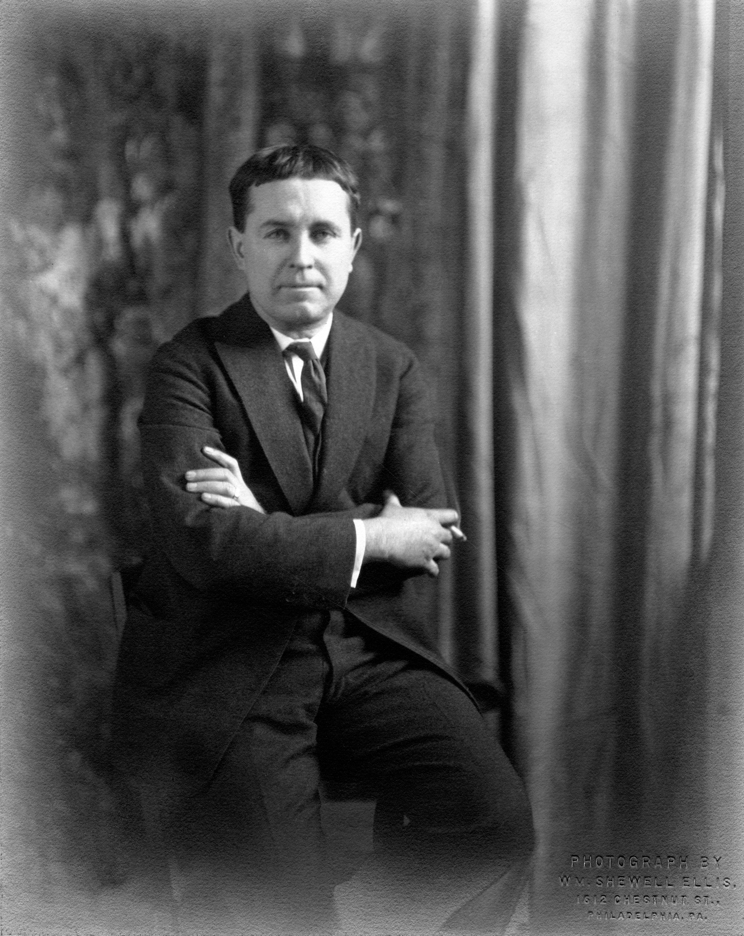 Photograph of Charles Buckles Falls